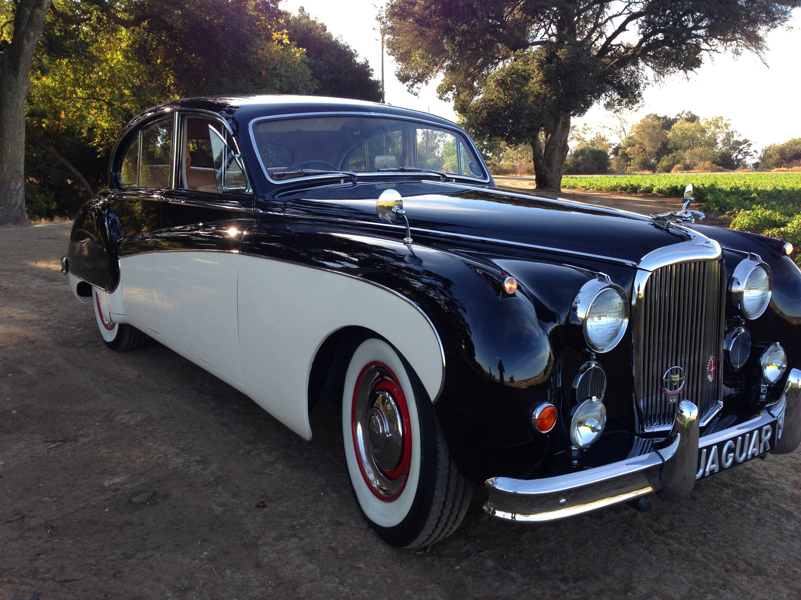 1960 Jaguar MK-IX pictured in Gilroy, California 2013